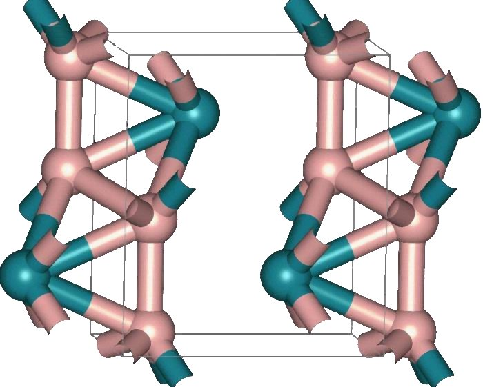 structure of OsB2, data from Journal = JOURNAL OF CHEMICAL PHYSICS, NEW YORK Year = 1962 Volume = 37 Page = 1473-1476 Title = New Orthorhombic Phase in the Ru-B and Os-B Systems Authors = Roof R.B. Jr., Kempter C.P. OsB2 Structure Type Pearson Symbol Space Group No. RuB2 oP6 Pmmn 59 Experiment method arc-melted Atmosphere argon/helium